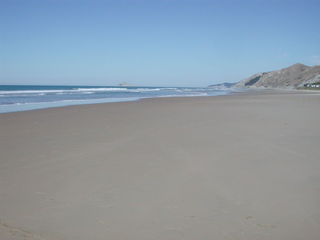 Deserted, wide, sandy beach at Ocean Beach.